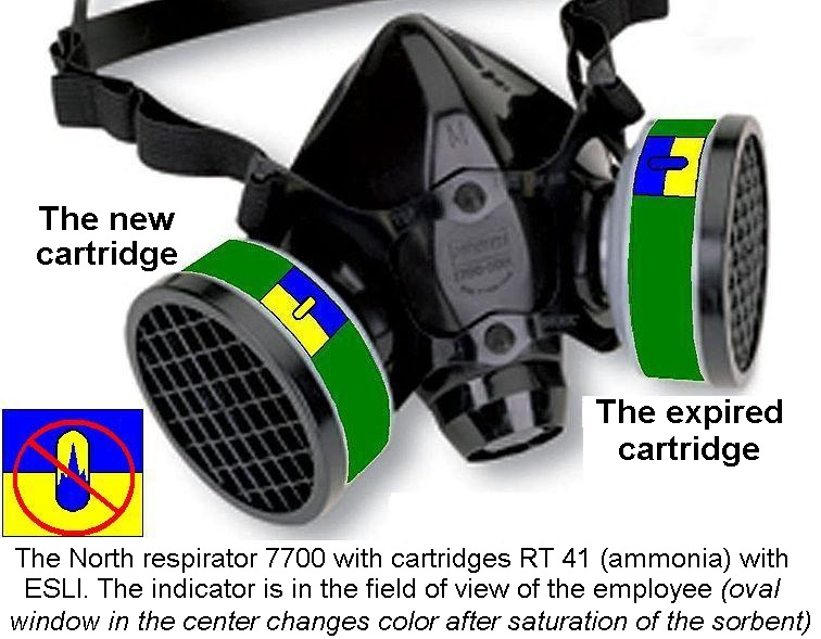 This file is the scheme of installation of the cartridge with End of Service Life Indicator on a half-mask respirator, so that the ESLI is visible during operation. The color change shows that the cartridge will cease to capture ammonia, and the employee should leave the workplace to replace the cartridges